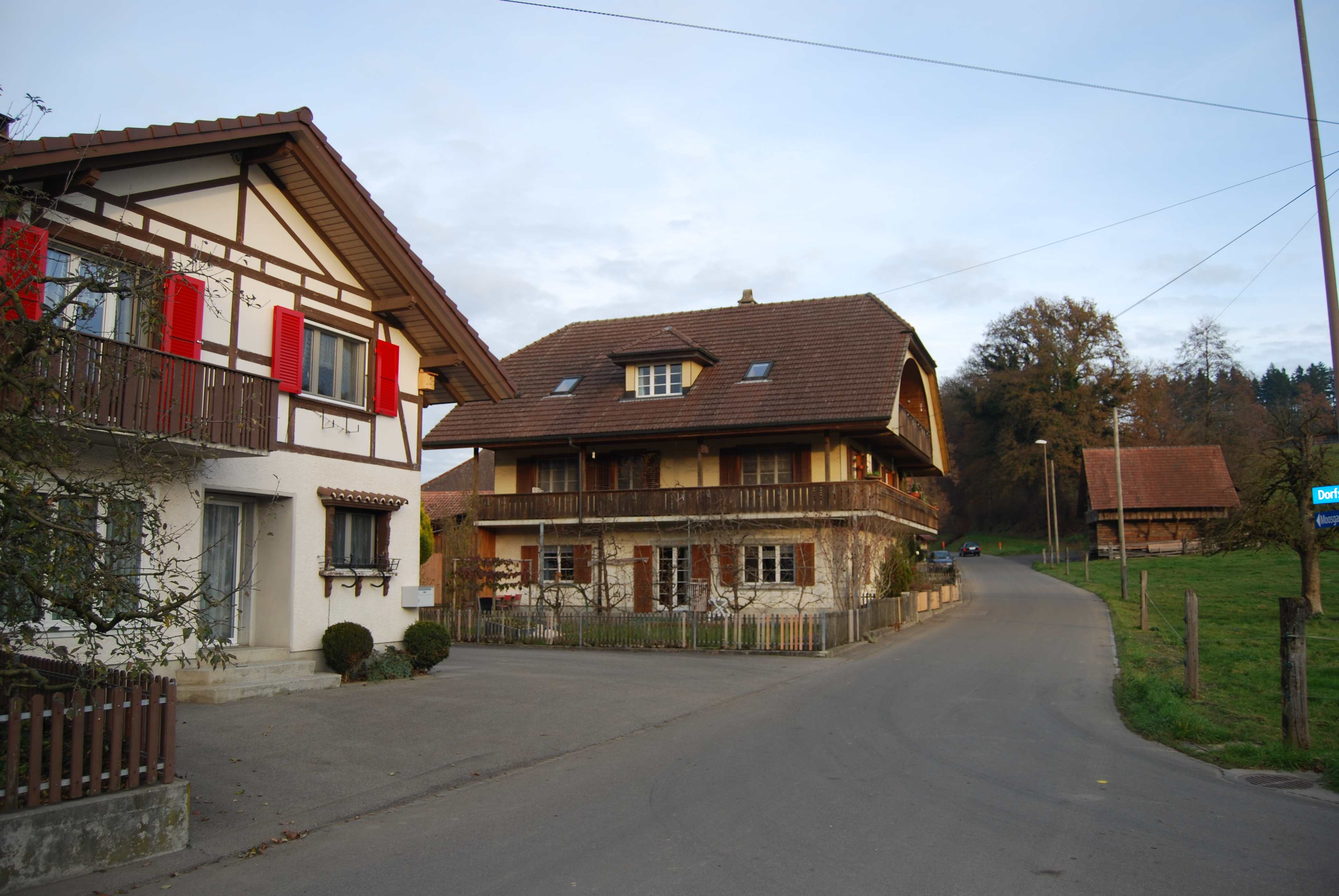 Willadingen, canton of Bern, SwitzerlandEsperanto: Willadingen, Kantono Berno, Svislando